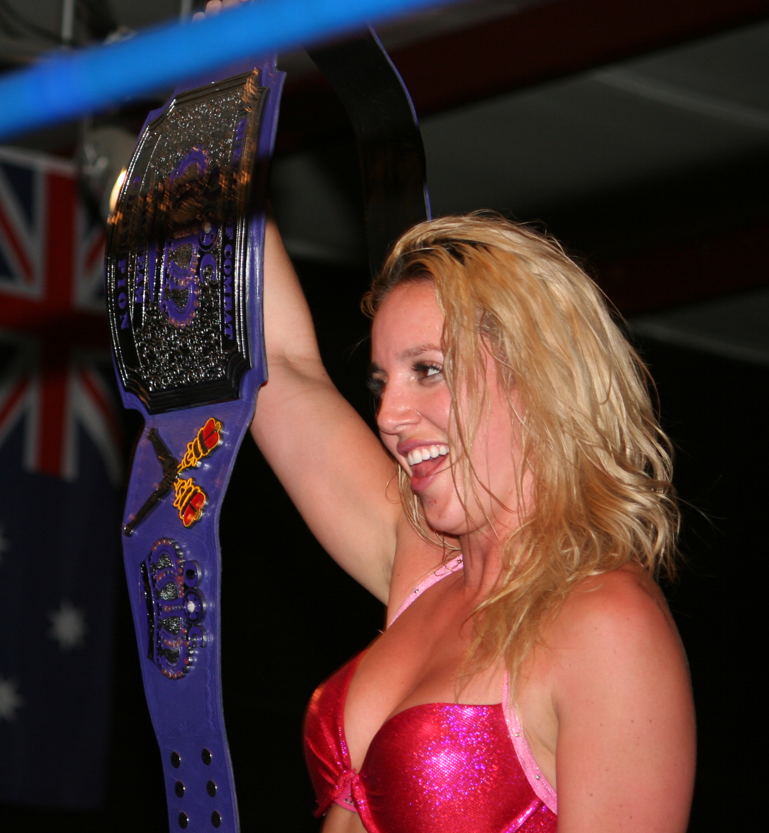 Laurel Van Ness posing with the tag team championship belt at the Queens of Combat night show in Gibsonville, NC February 18th 2017